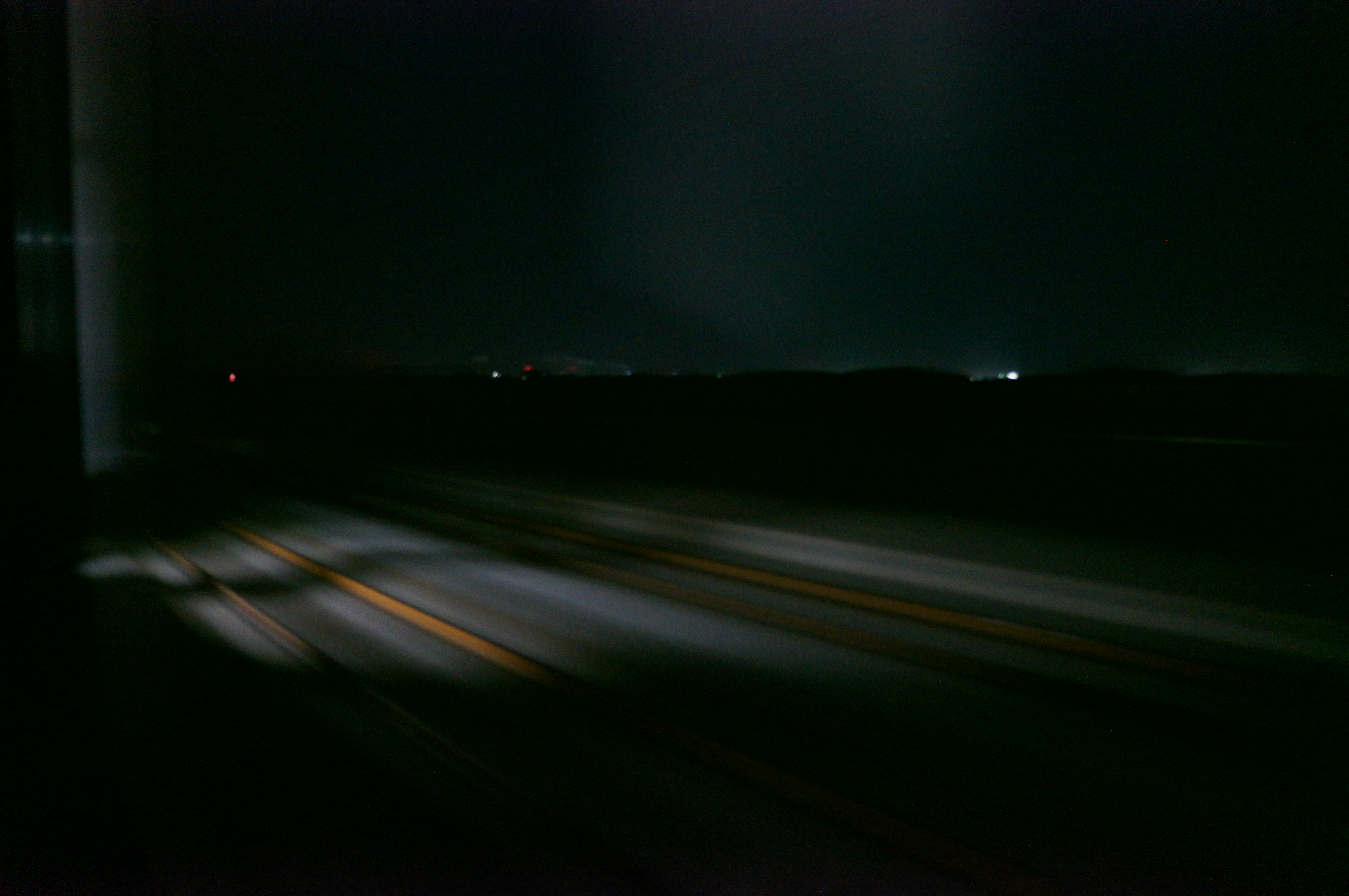 201606 Z9 passes Shi'erlige Station